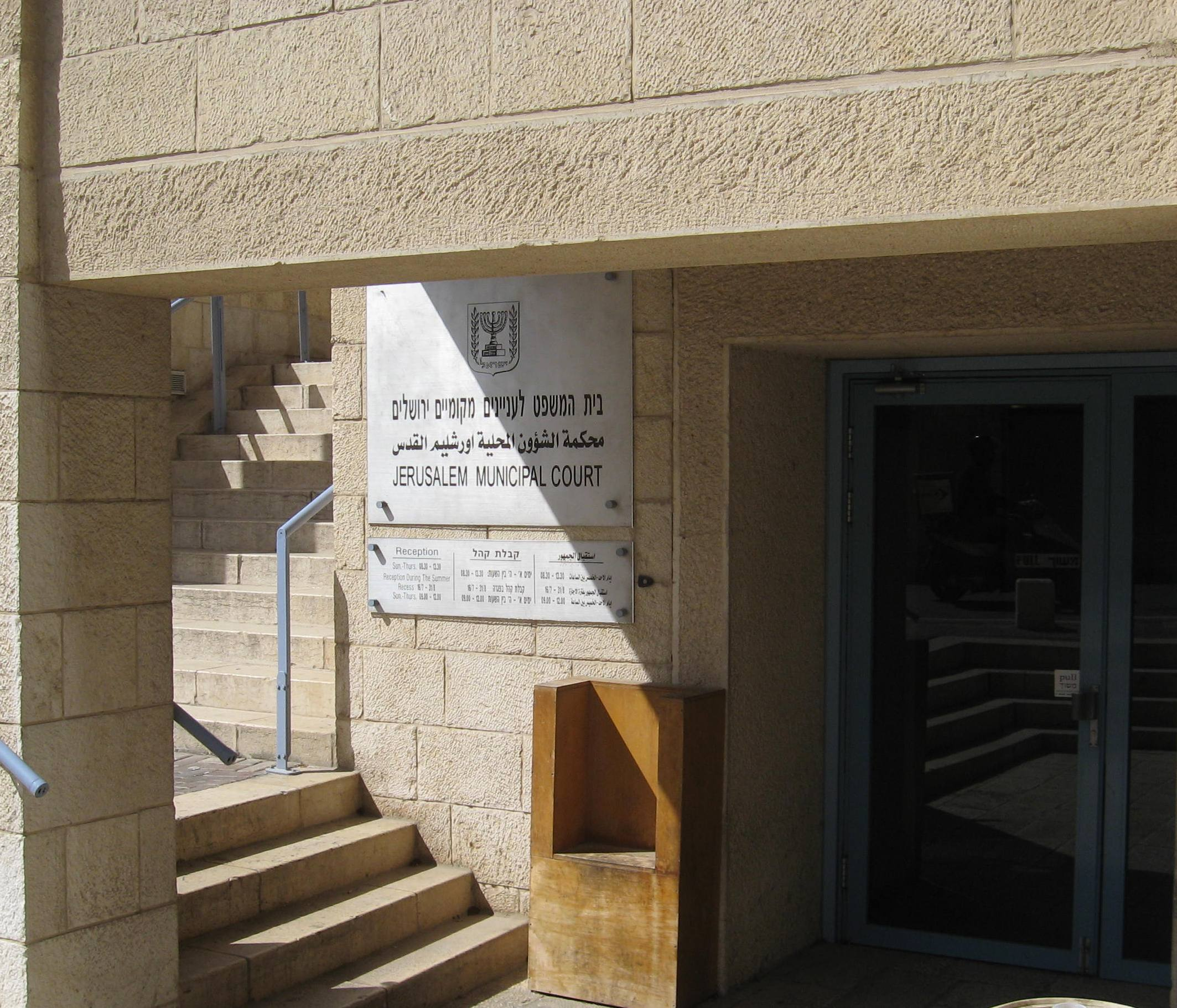 Jerusalem Municipal Court : Local Matters Law Court, 7 Shivtei Israel Street, Jerusalem.